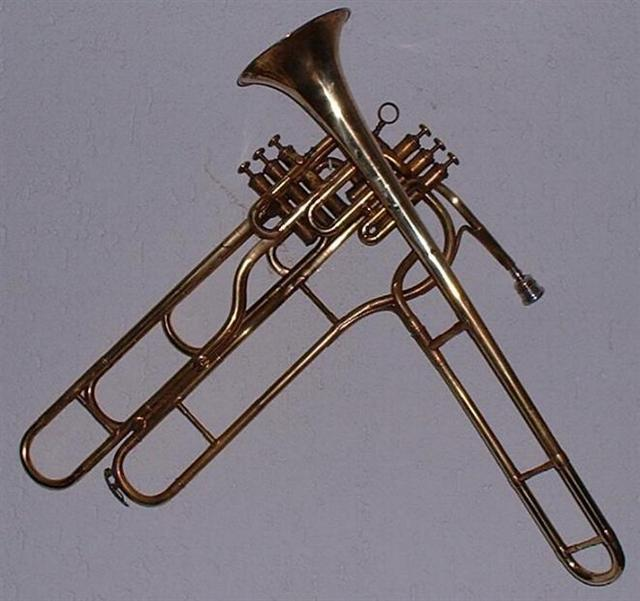 6 valve trombone from sax